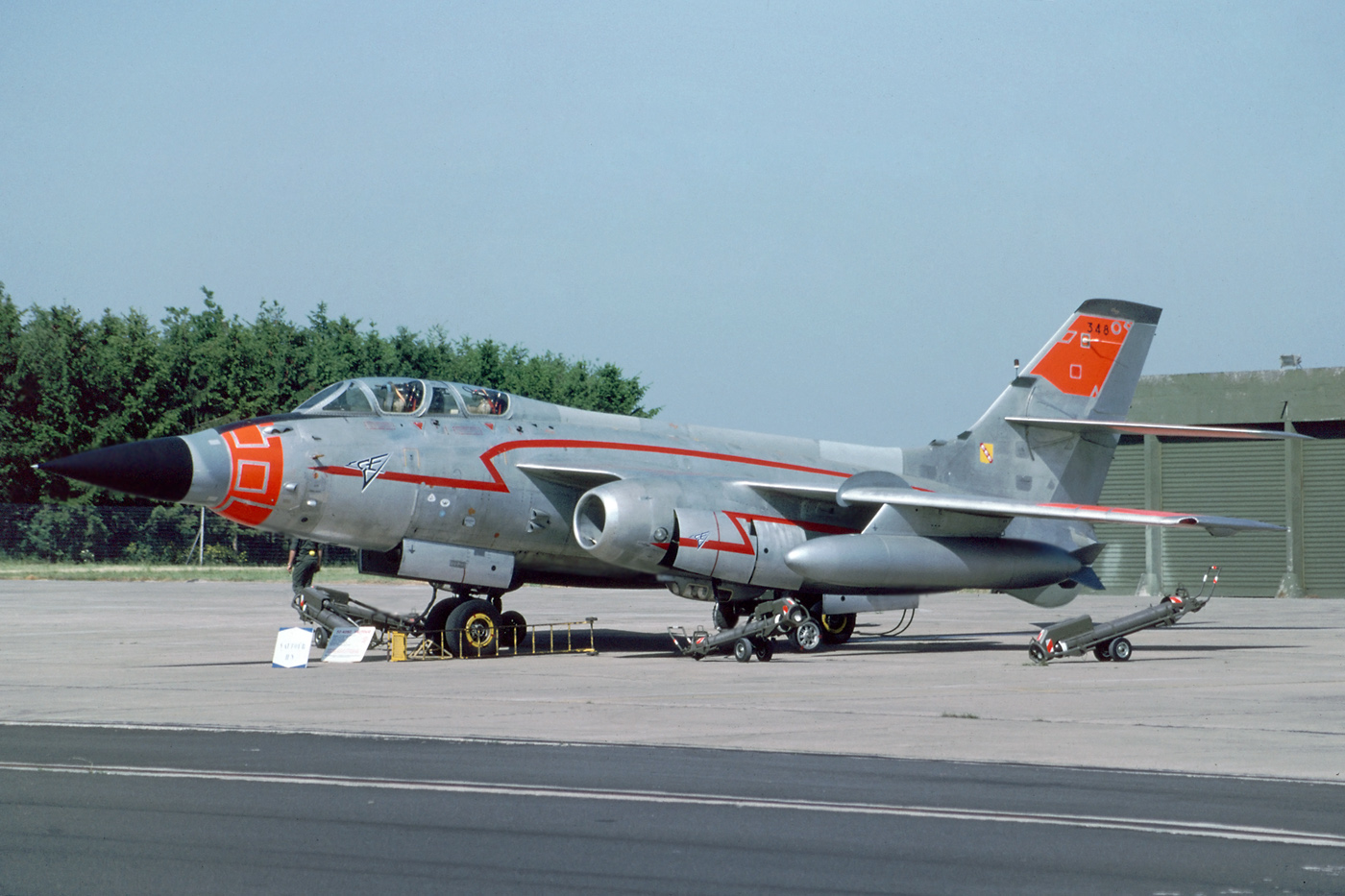 The last flying Vautour was a former aircraft of the French test unit CEV. It flew with the civilian registration F-AZHP. It appears to have the nose of Mirage F1 for test of radar. It was on the flight line during the Reims open day, 2 June 1991. Some years later No. 348 was flown to Orange-Caritat and put on display behind the gate.